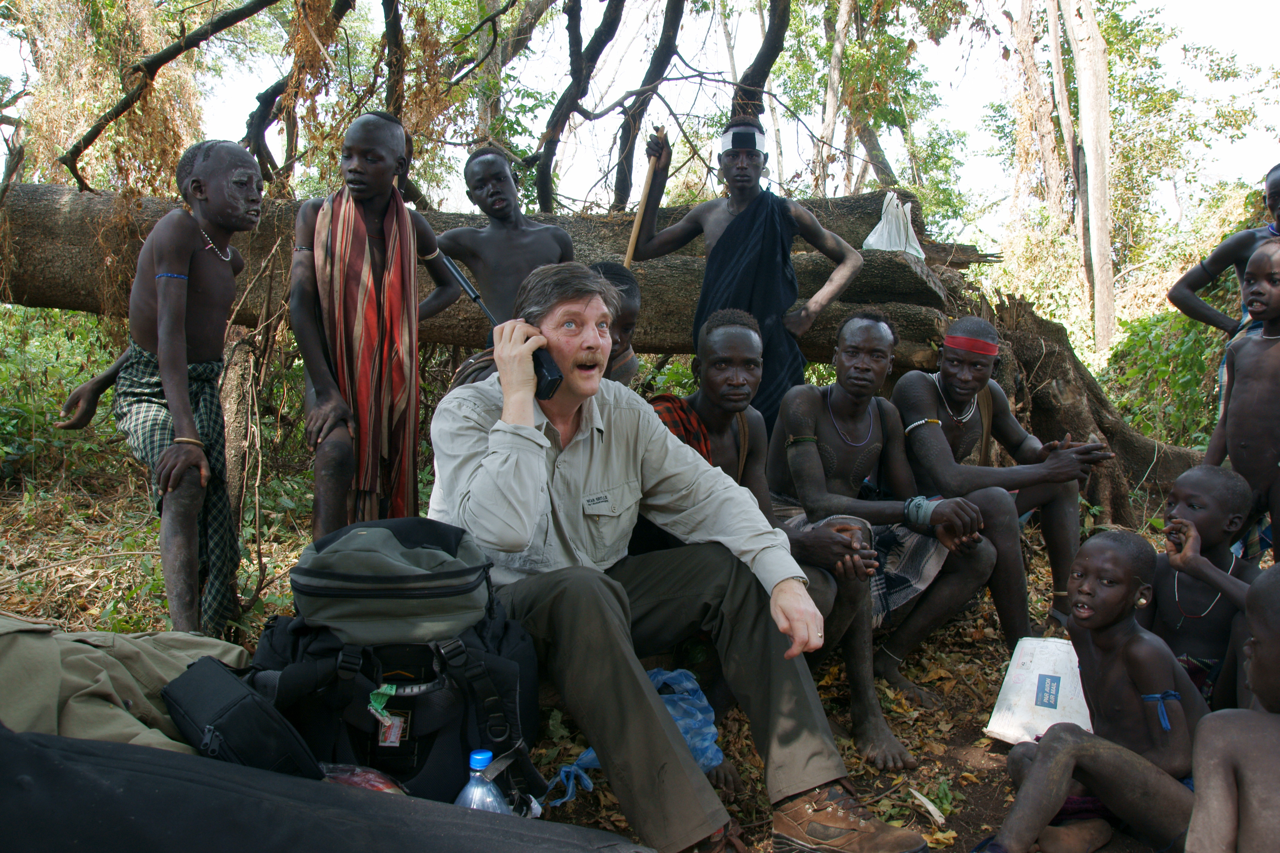 On location in Ethiopia with the Mursi 2008